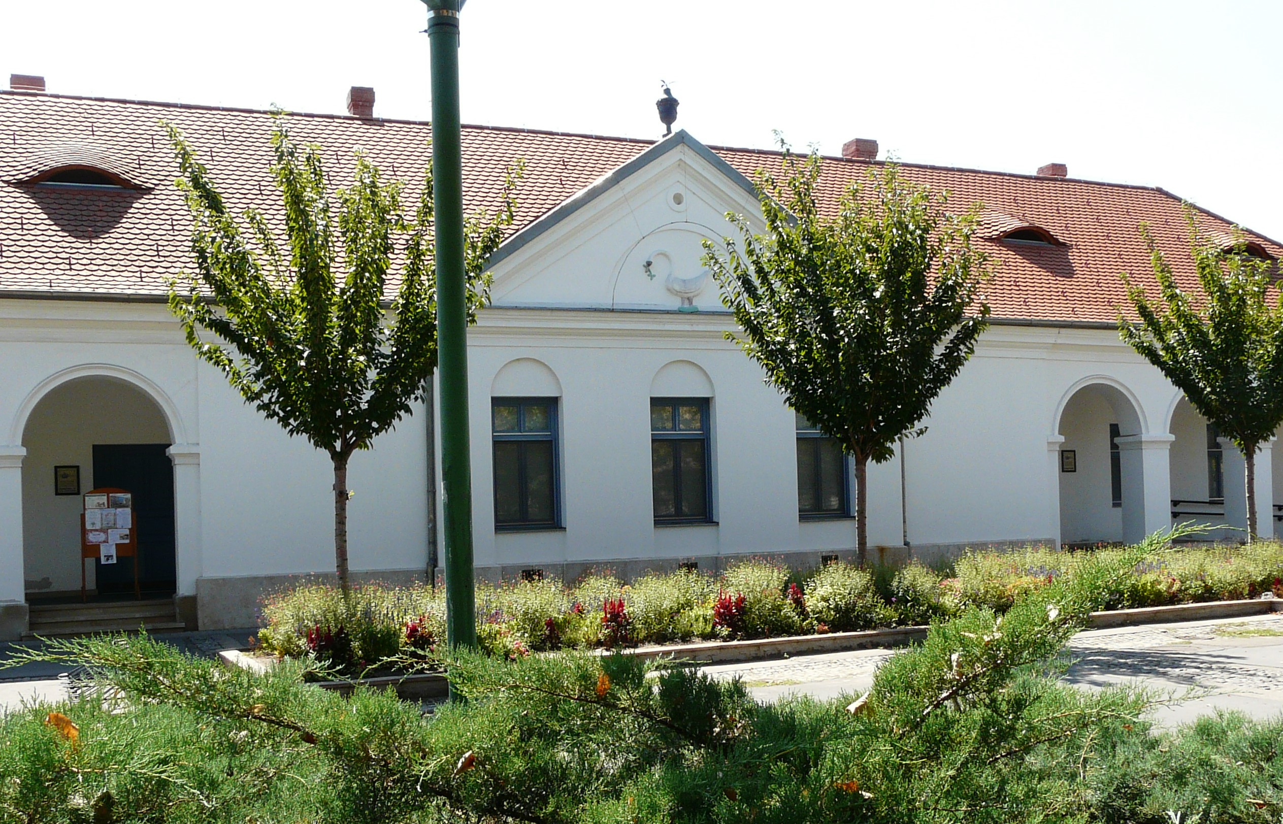 The so-called Hattyú-ház (Swan House), Kiskunfélegyháza, Hungary. Sándor Petőfi's father's ex-butchers